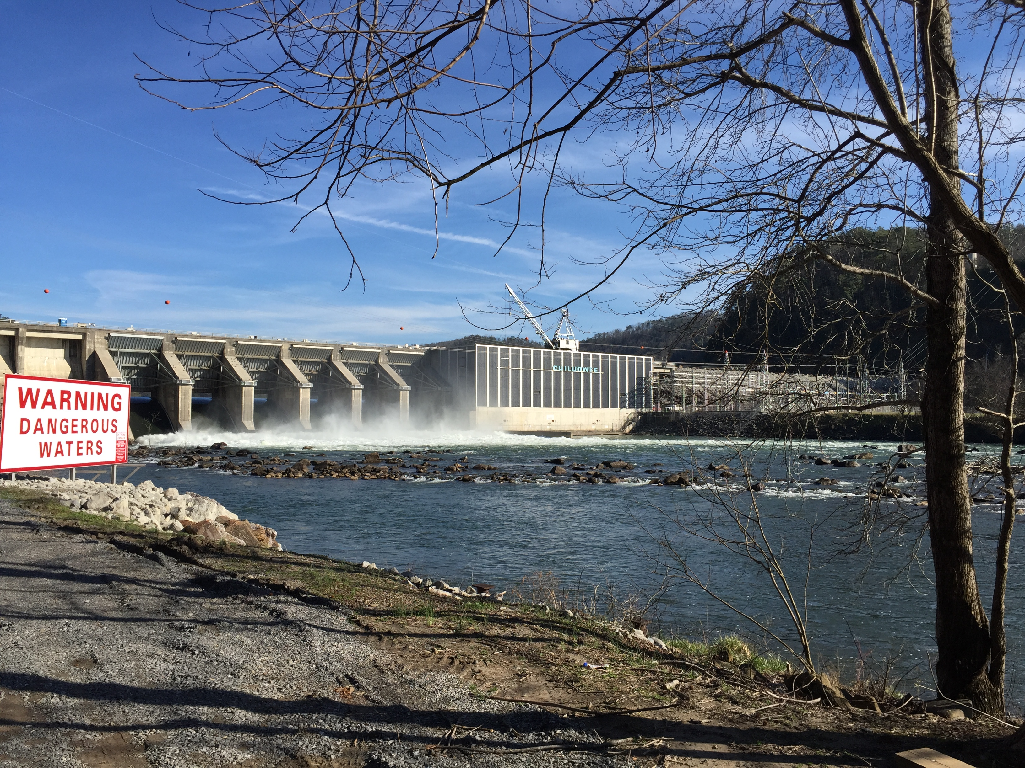 Chilhowee Dam in TN, USA.